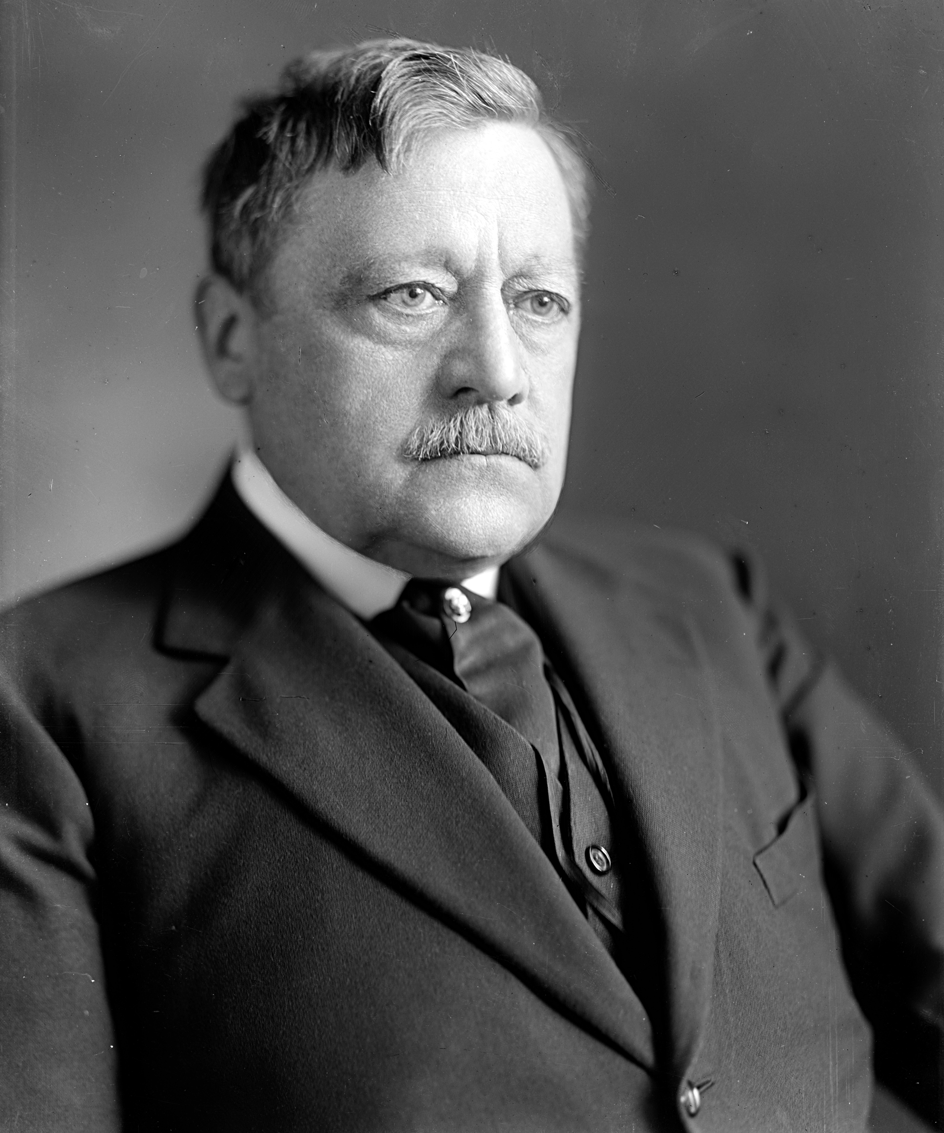 Henry Winfield Watson, US Representative from Pennsylvania